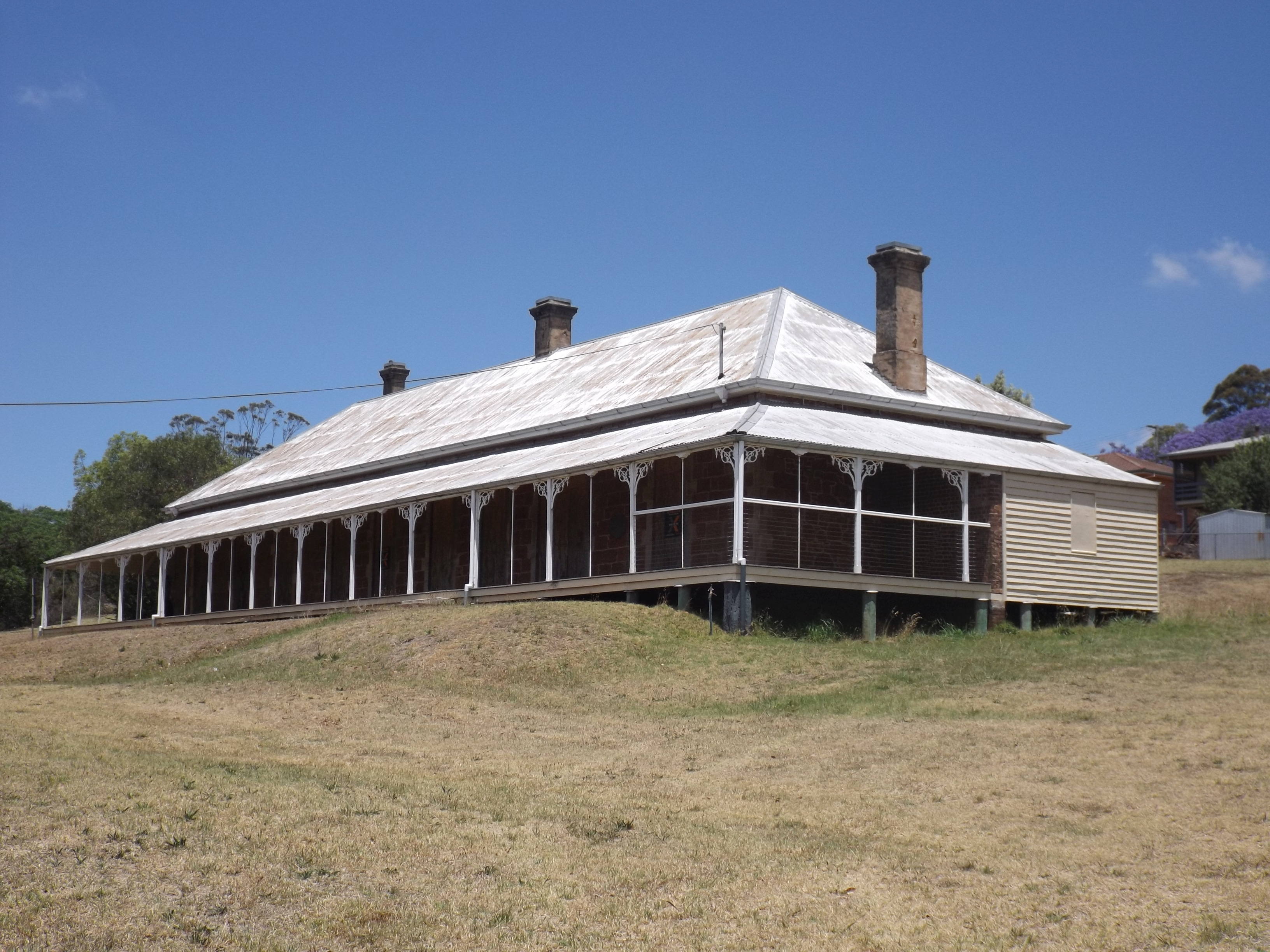 Photo of Harlaxton House at Harlaxton, Toowoomba, Queensland, Australia.